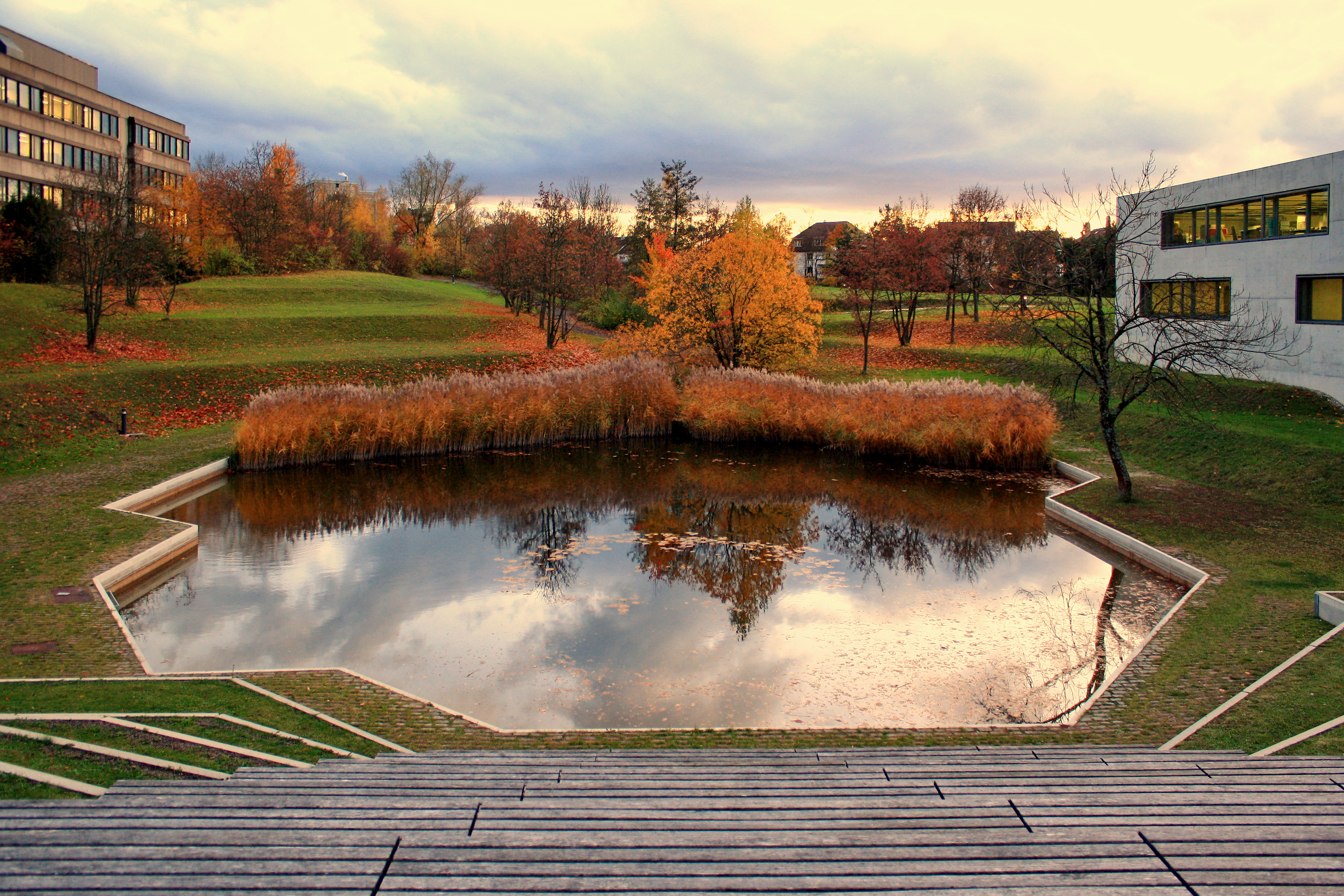 Irchel campus of the University of Zürich in Zürich-Oberstrass (Switzerland)